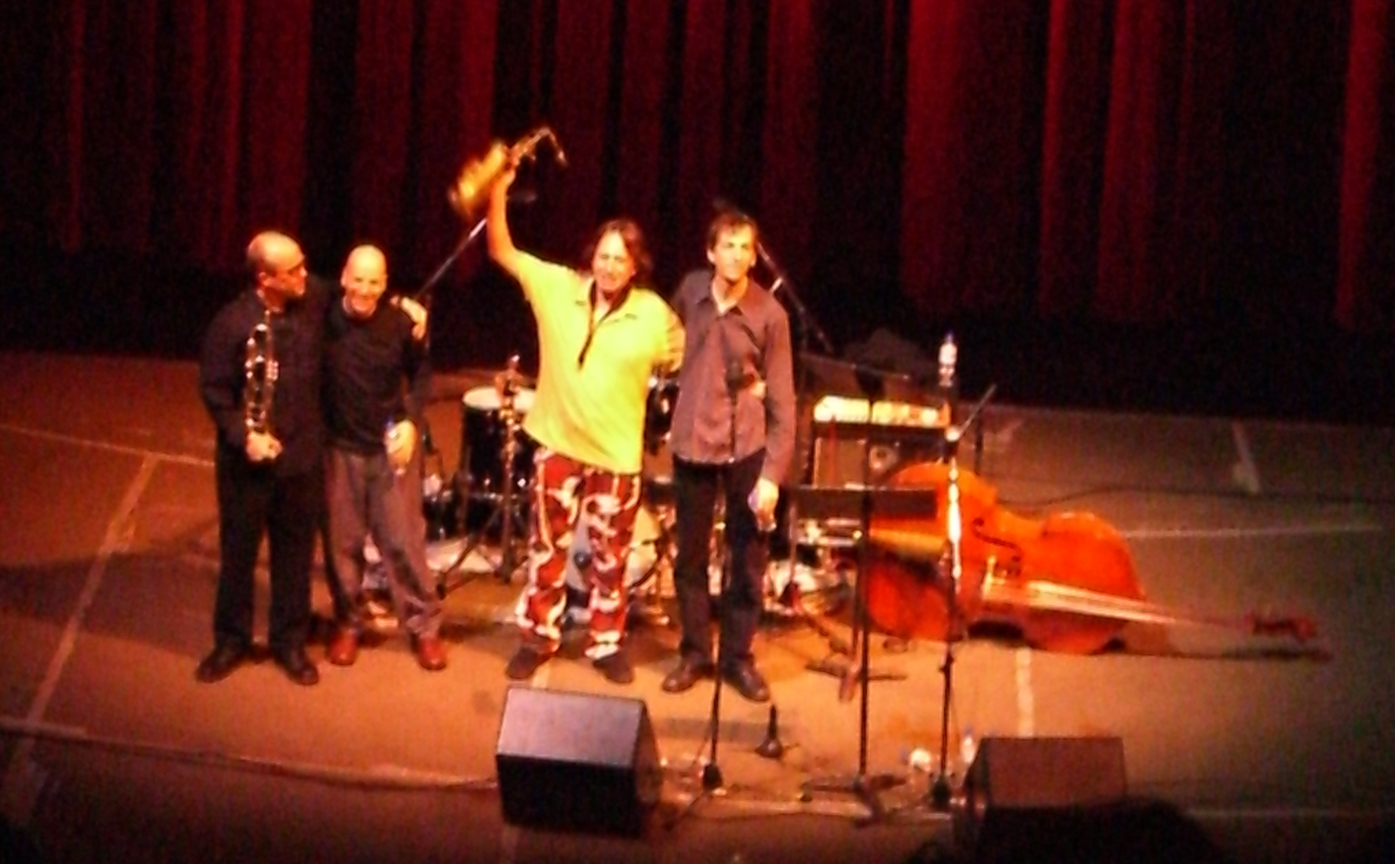 John Zorn with band Masada